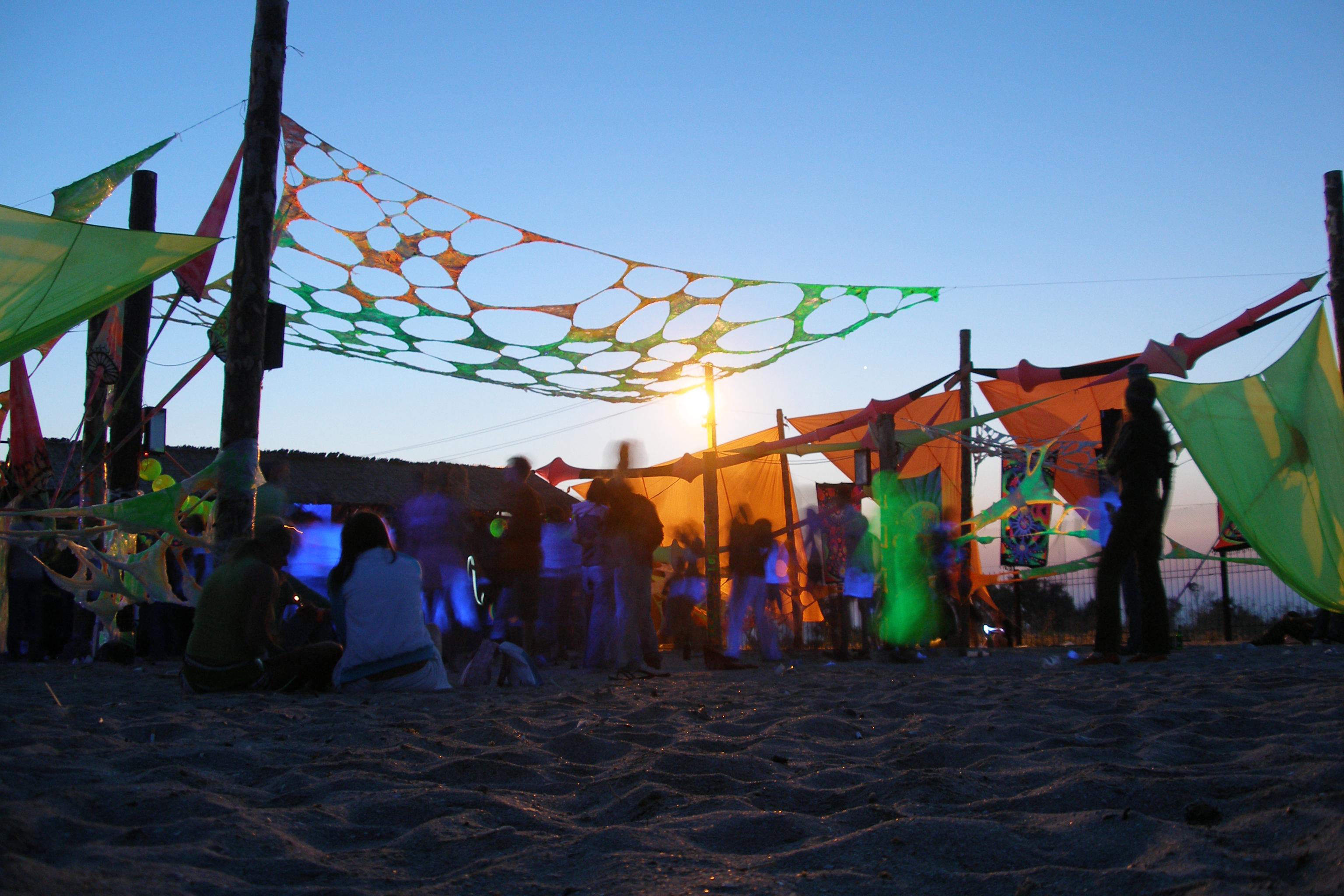 Early sunrise.